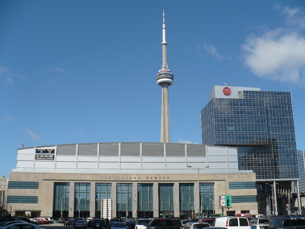 View of the Bay Street side of the Air Canada Centre, showing the Art Deco facade of the former postal depot and the CN Tower in the background